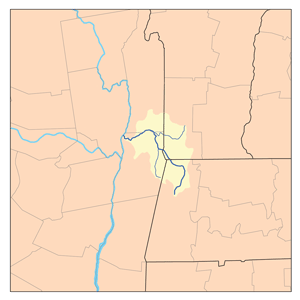 This is a map of the Hoosic River Watershed. I, Karl Musser, created it based on USGS data.